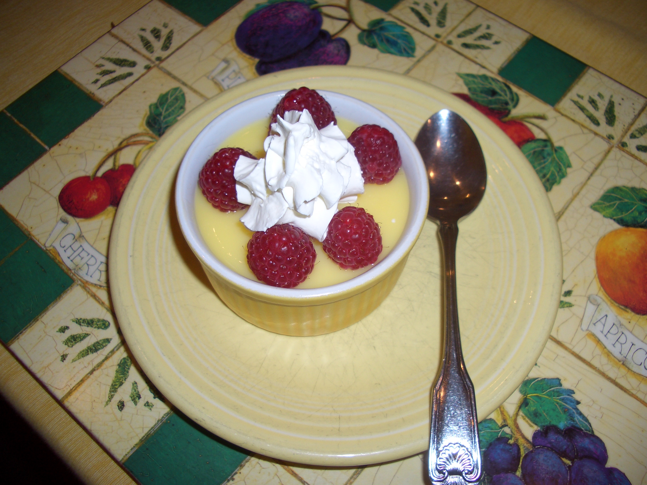 Pudding with raspberry and whipped cream topping.